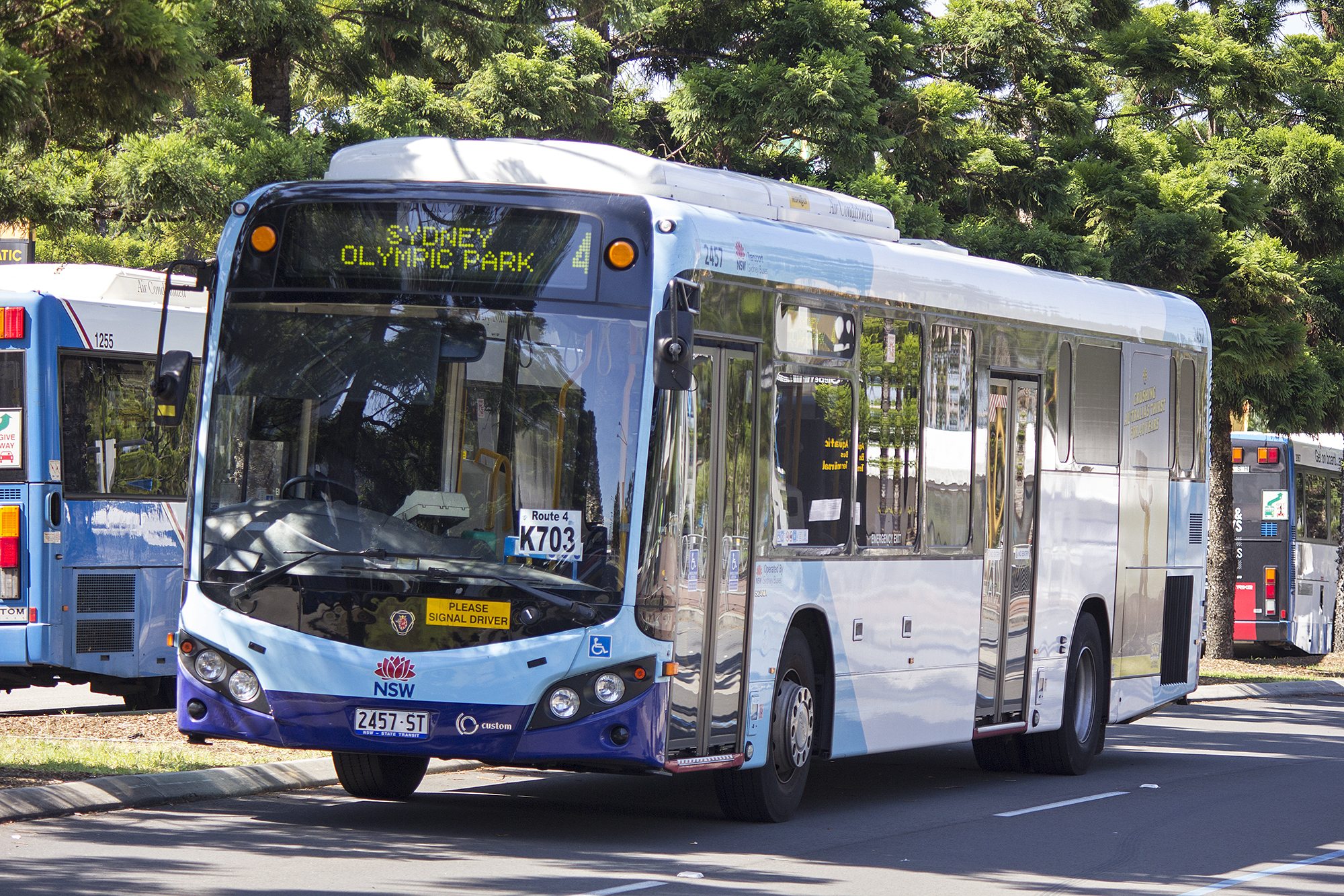 Sydney Buses (2457 ST) Custom Coaches 'CB80' bodied Scania K280UB on Olympic Boulevard at Sydney Olympic Park.